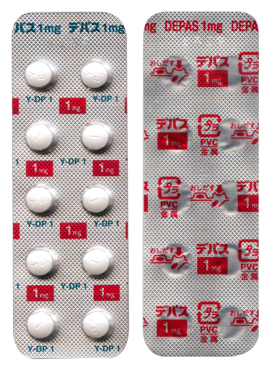 Depas (etizolam) 1 mg tablets